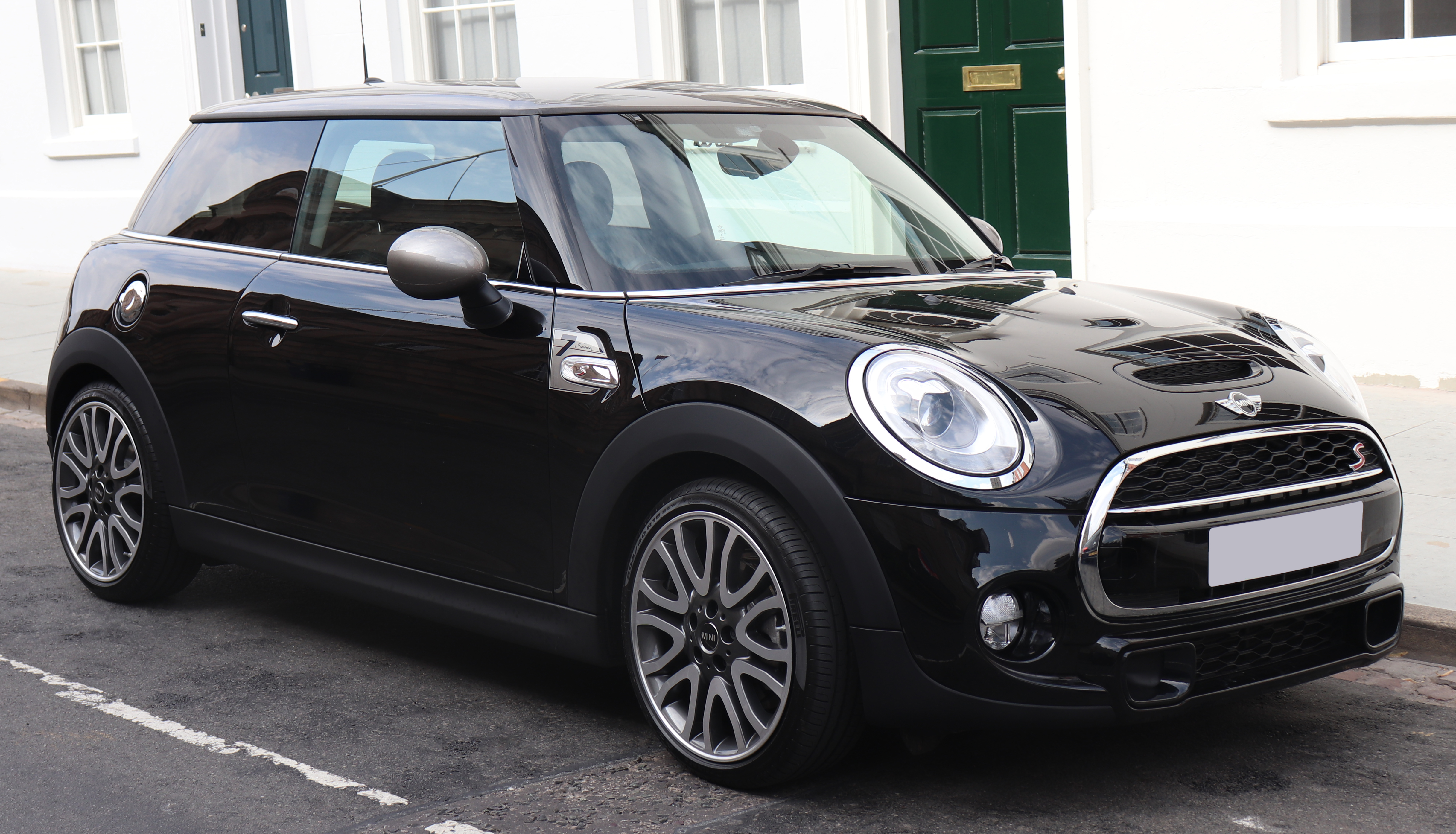 2018 Mini Cooper S Seven 2.0 Front Taken in Warwick